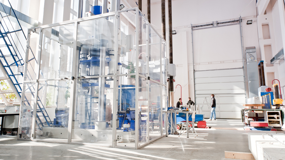 VGTU CIMC